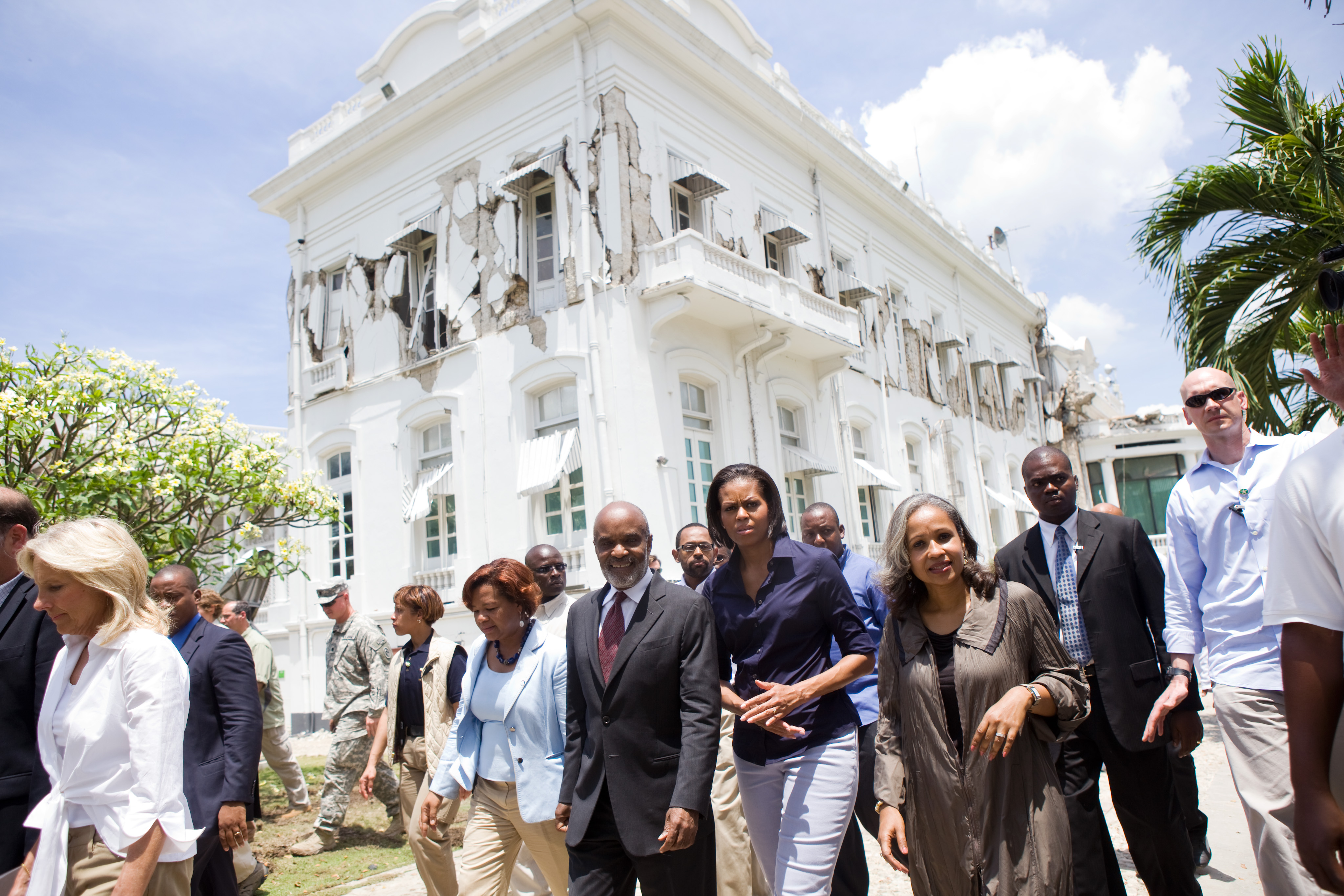 April 13, 2010 "Samantha Appleton captured this scene as the First Lady and Dr. Jill Biden toured earthquake damage in Port Au-Prince, Haiti, along with Haitian President René Préval, and Elisabeth Delatour Préval. The damaged presidential palace is seen in the background. (Official White House Photo by Samantha Appleton) This official White House photograph is in the public domain from a copyright perspective, so while restrictions such as personality or privacy rights may apply, in general, manipulations are allowed.